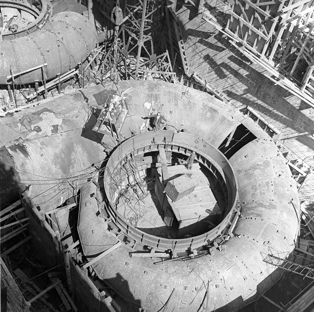 “Bratsk hydroelectric power station on Angara-river”. Construction site of Bratsk hydroelectric power station on Angara-river.